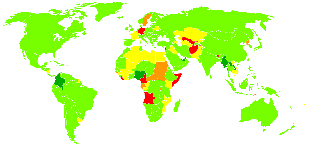 colours of contries in the world according to date of last census